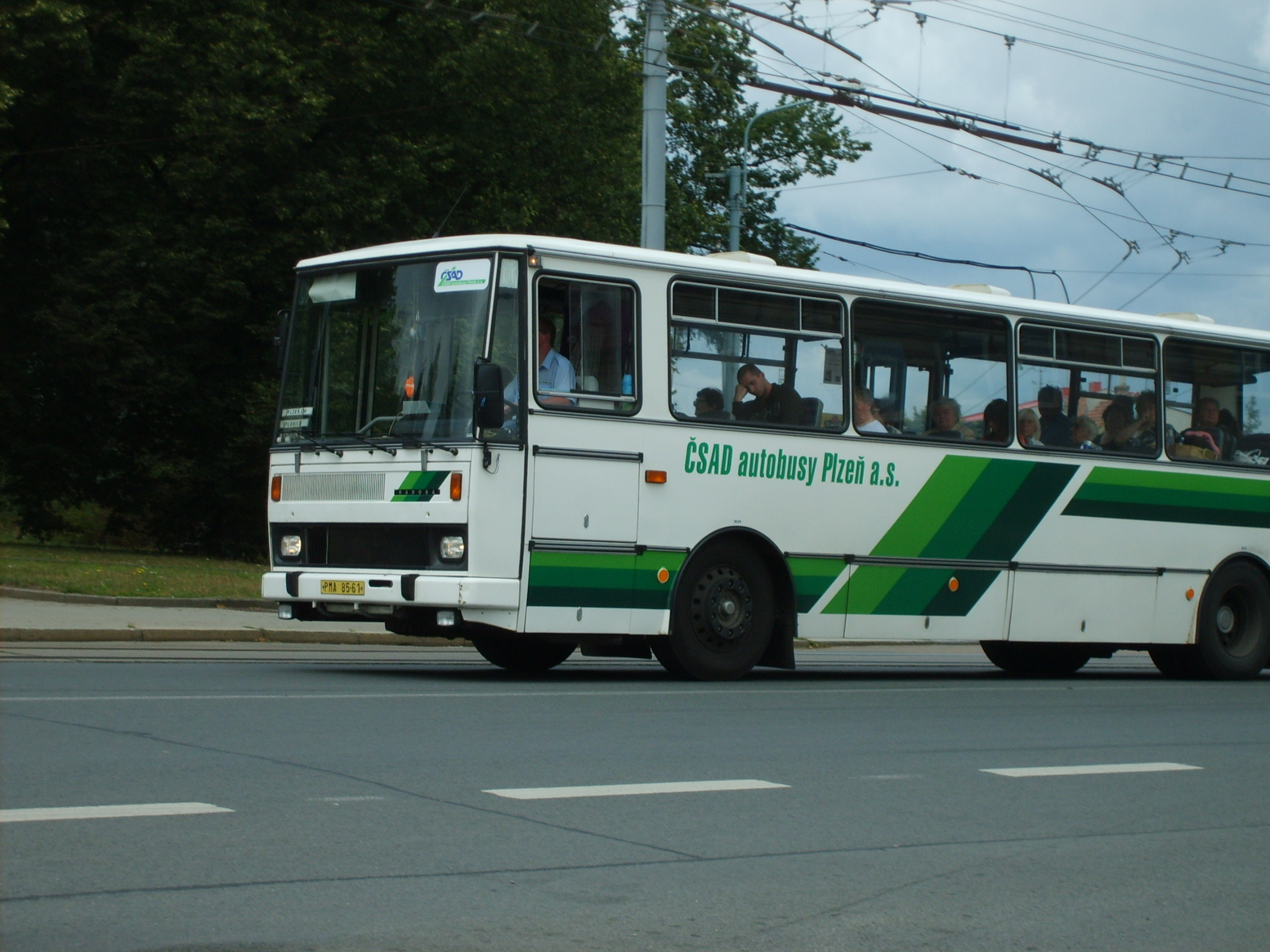 Bus Karosa C734 on the line Plzeň-Plánice going through Slovany.